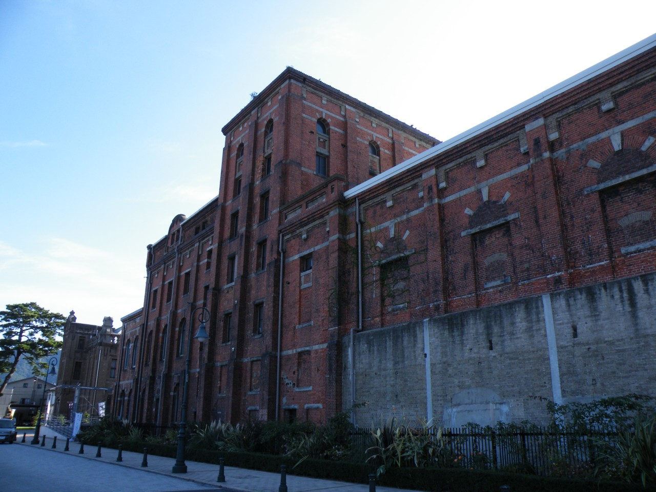 Moji Akarenga(Redbricks) Place (former Sapporo Beer Kitakyushu Factory)